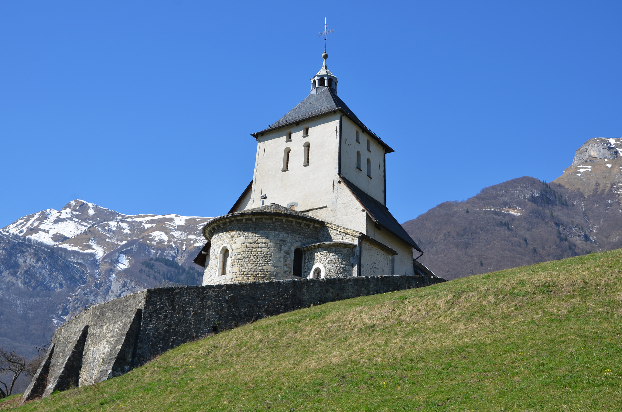 The roman church of Cléry, in the french Alps (Savoie, France).